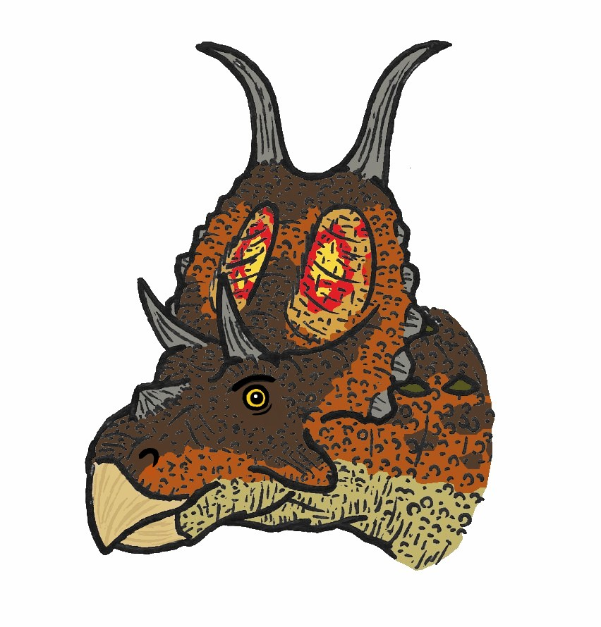 Illustration of the ceratopsian dinosaur Diabloceratops, fom the late cretaceous west USA.